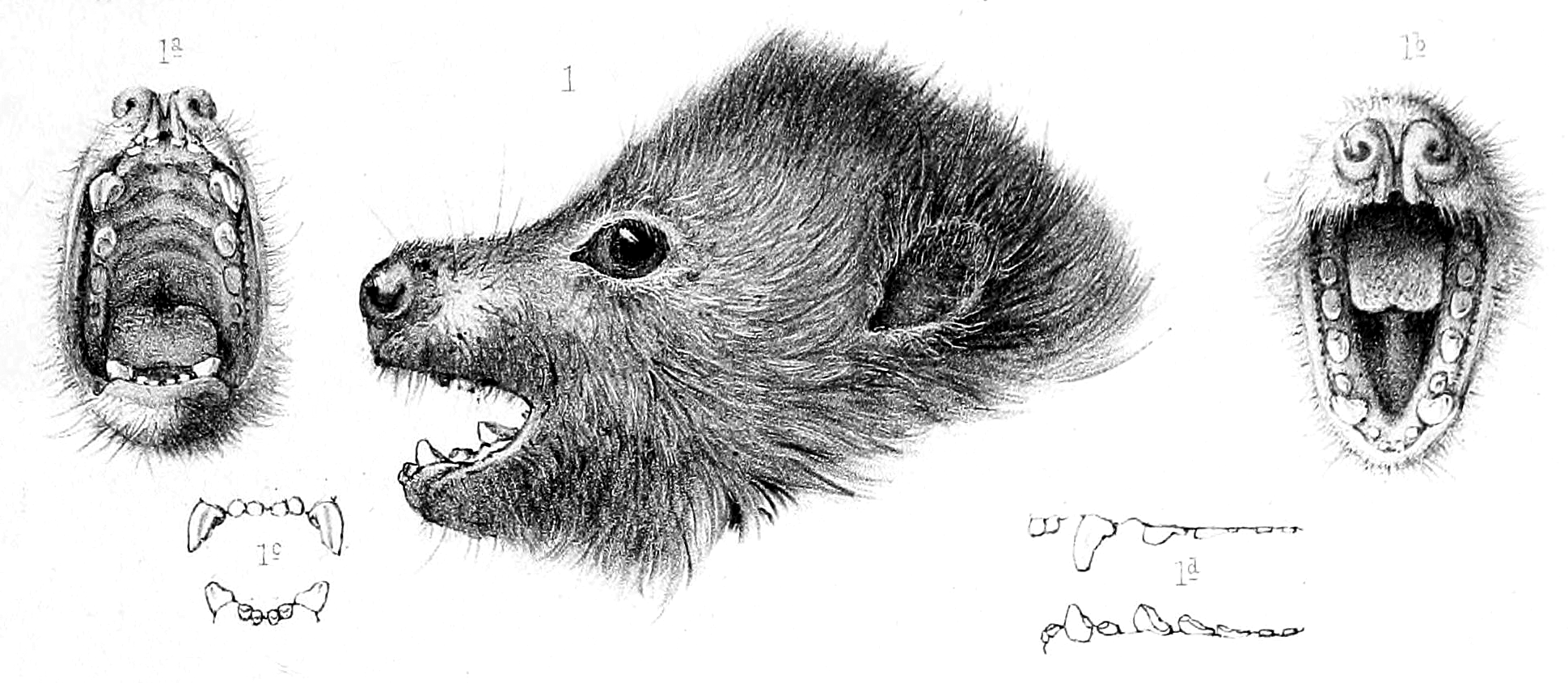 Drawings of the head and dentition of the Lesser Mascarene Flying Fox (Pteropus subniger). From plate 8, figure 1 in 'Die Megachiroptera des Berliner Museums für Naturkunde' by Paul Matschie (1899).